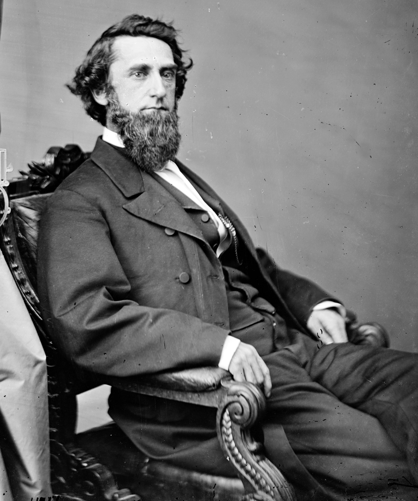 Martin Welker, US Representative from Ohio